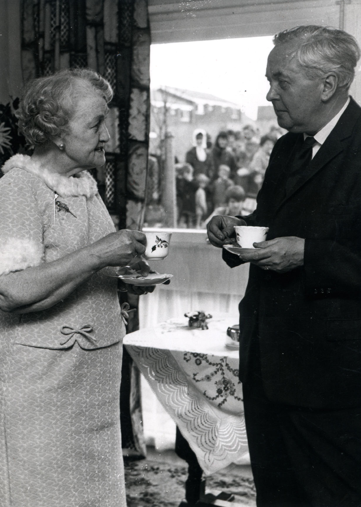 This is a photograph of Harold Wilson visiting an Retirement Home in Washington, UK. The photograph was taken at some point in the late 1960s. Reference: 5417/101 This collection of images has been assembled in support of the Washington Heritage Festival 2013. The celebration of Washington brings together a variety of different themes. Washington is a Town in the City of Sunderland, Tyne & Wear. It is traditionally associated with Coal Industry, and notably known as the home of the Washington Family, ancestors of the First President of the United States George Washington. However, in 1964 Washington was designated a New Town and drastically changed. With the introduction of new industry such as the Nissan Car Factory Washington experienced a huge redevelopment in both its economy and community. These Photographs are taken from the Records of the Washington Development Corporation; held at Tyne & Wear Archives. The records document this change in industry, landscape and community in Washington between 1964 & 1988, and consist of many photographs. For more information on the Washington Heritage Festival, 21st September 2013 please click (Copyright) These images are Crown Copyright. We're happy for you to share these digital images within the spirit of The Commons. Please cite 'Tyne & Wear Archives & Museums' when reusing. Certain restrictions on high quality reproductions and commercial use of the original physical version apply though; if you're unsure please